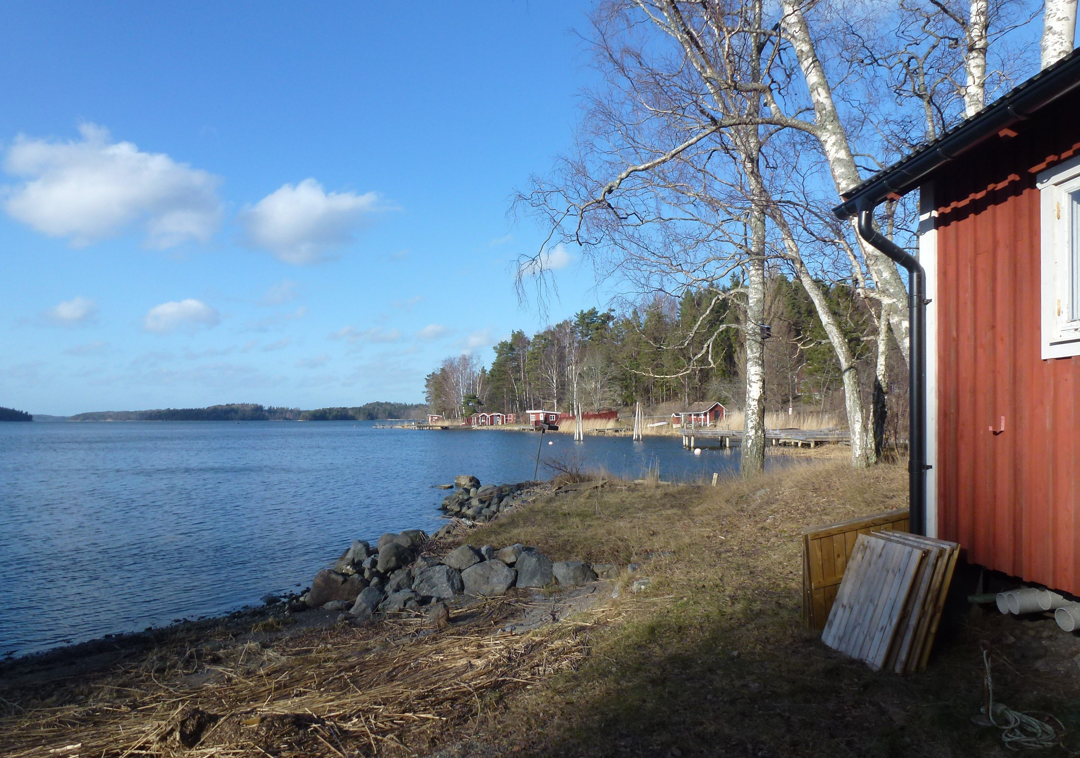 Svärdsund, view from Svärdsö to the north with Oxnö in the background